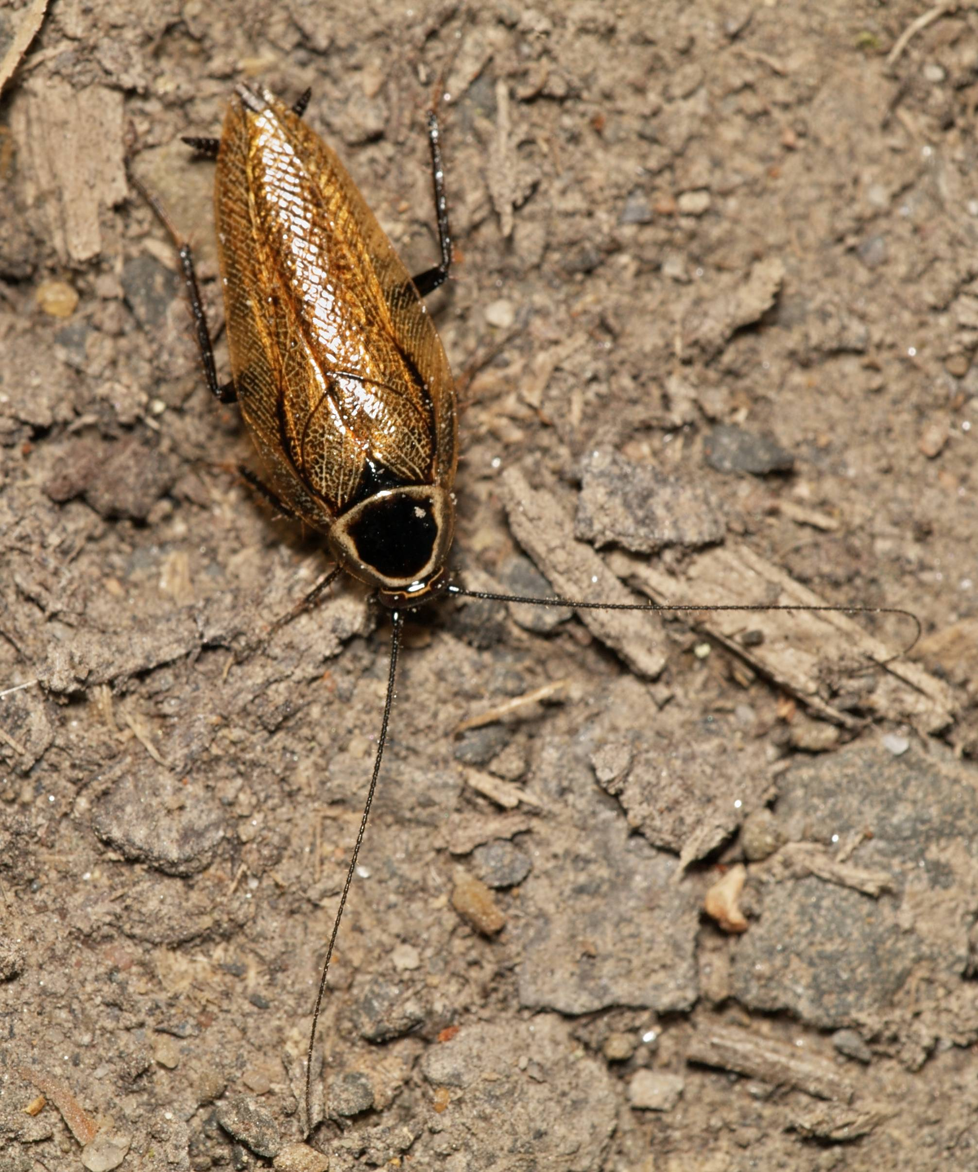 male Ectobius sylvestris from Königsforst near Cologne, Germany.